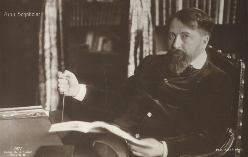 Arthur Schnitzler (1862–1931), Austrian author and dramatist.